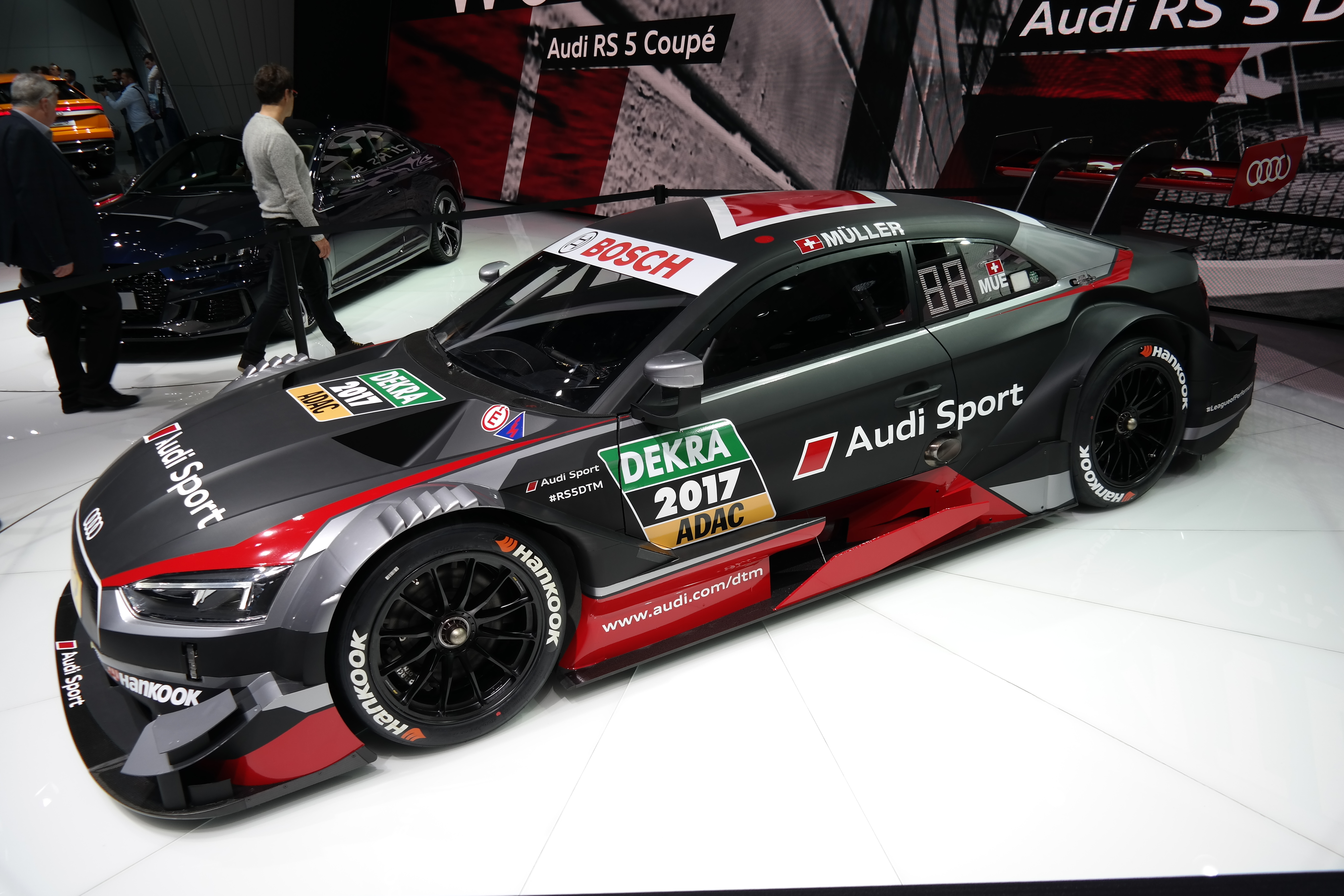 Geneva Motor Show 2017 (photo taken on the first press day)